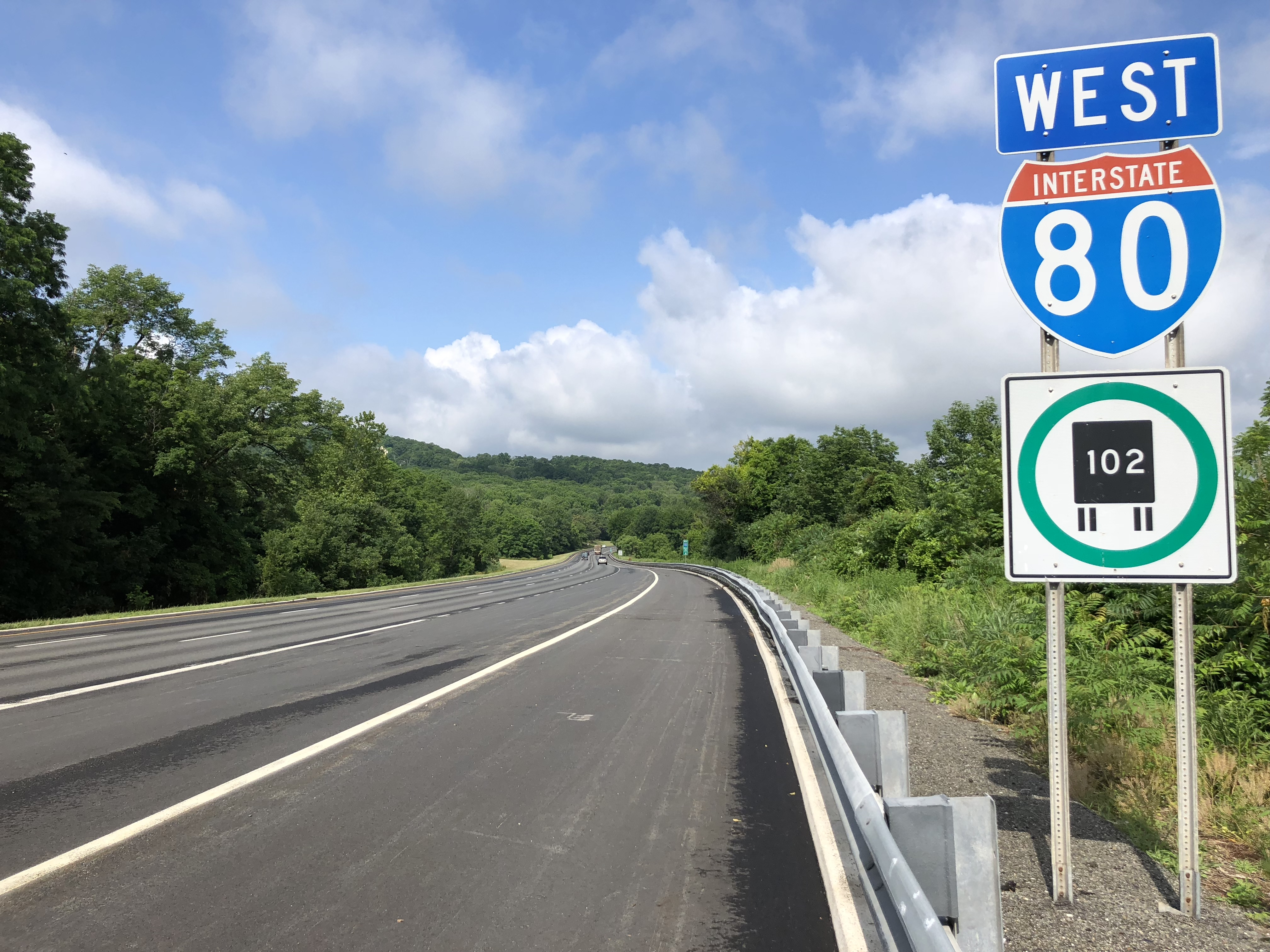 View west along Interstate 80 just west of Exit 19 in Allamuchy Township, Warren County, New Jersey